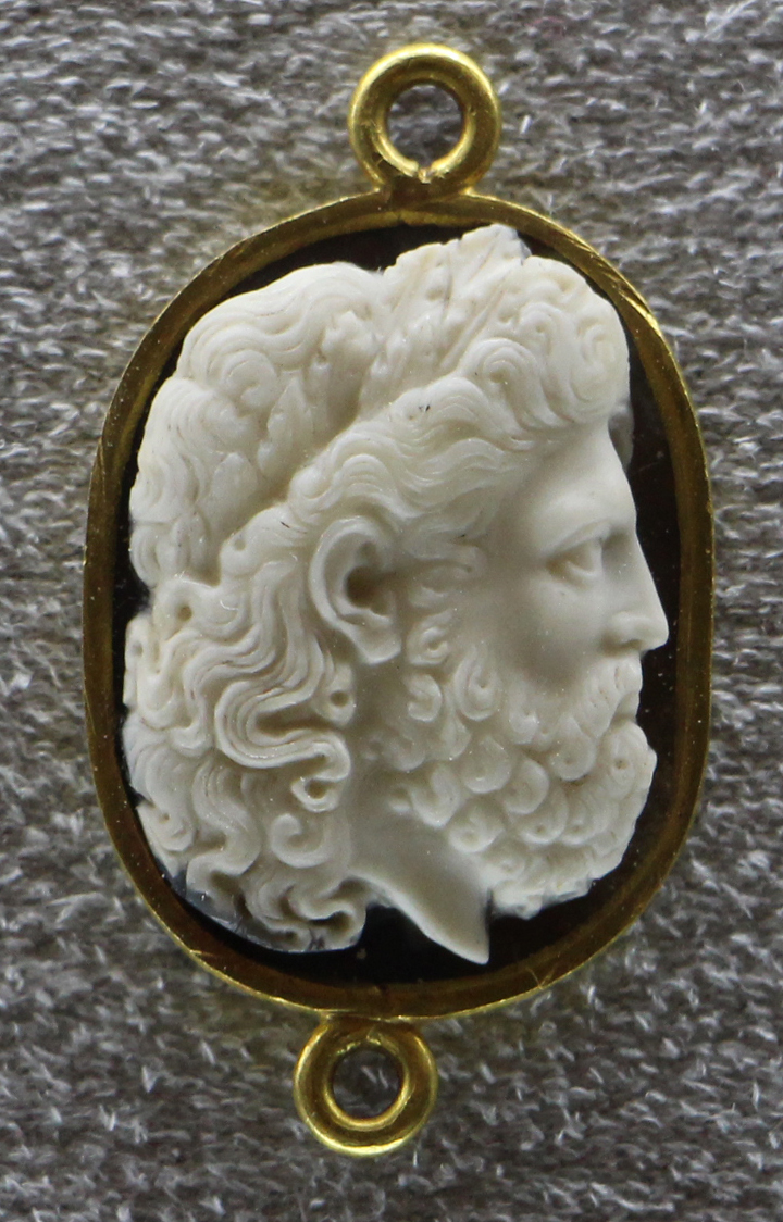 Ancient Greek glyptics in the Museo archeologico nazionale (Florence)